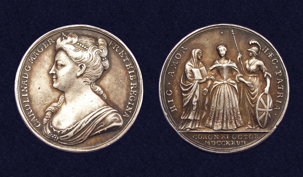 Great Britain, official Coronation medal of Queen Caroline in 1727, J. Croker. Obverse: Draped bust of Caroline left, wearing a bandeau, J.C. on truncation of arm. Legend: CAROLINA DG MAG BR FR ET HIB REGINA. Reverse: Caroline standing facing between Religion left and Britannia right. Legend: HIC. AMOR HÆC. PATRIA In exergue: CORON. XI. OCTOB. MDCCXXVII